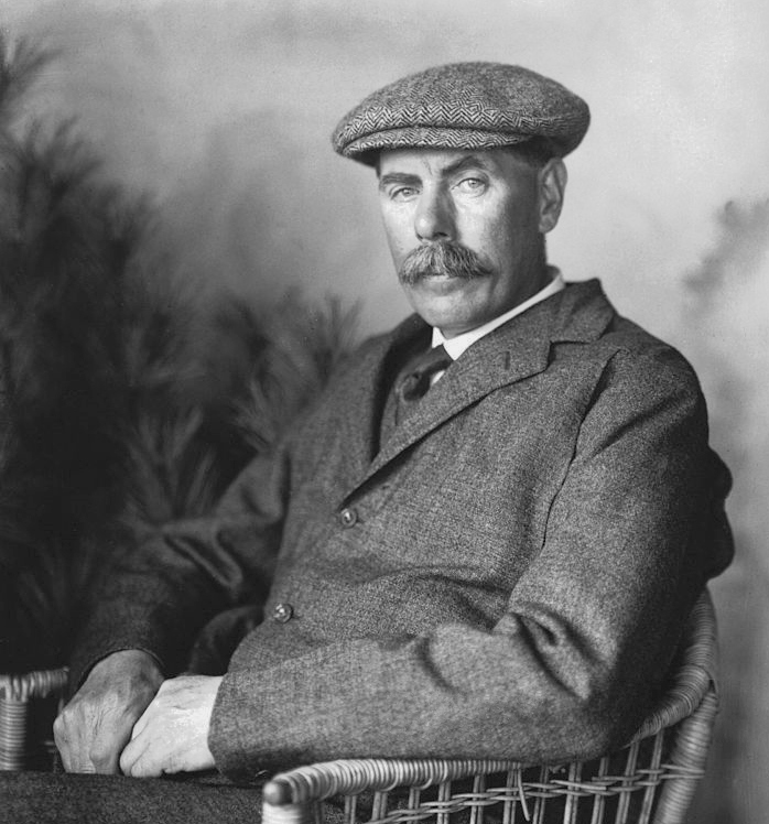 A PORTRAIT OF THE GOLFER JAMES BRAID SEATED IN A WICKER CHAIR